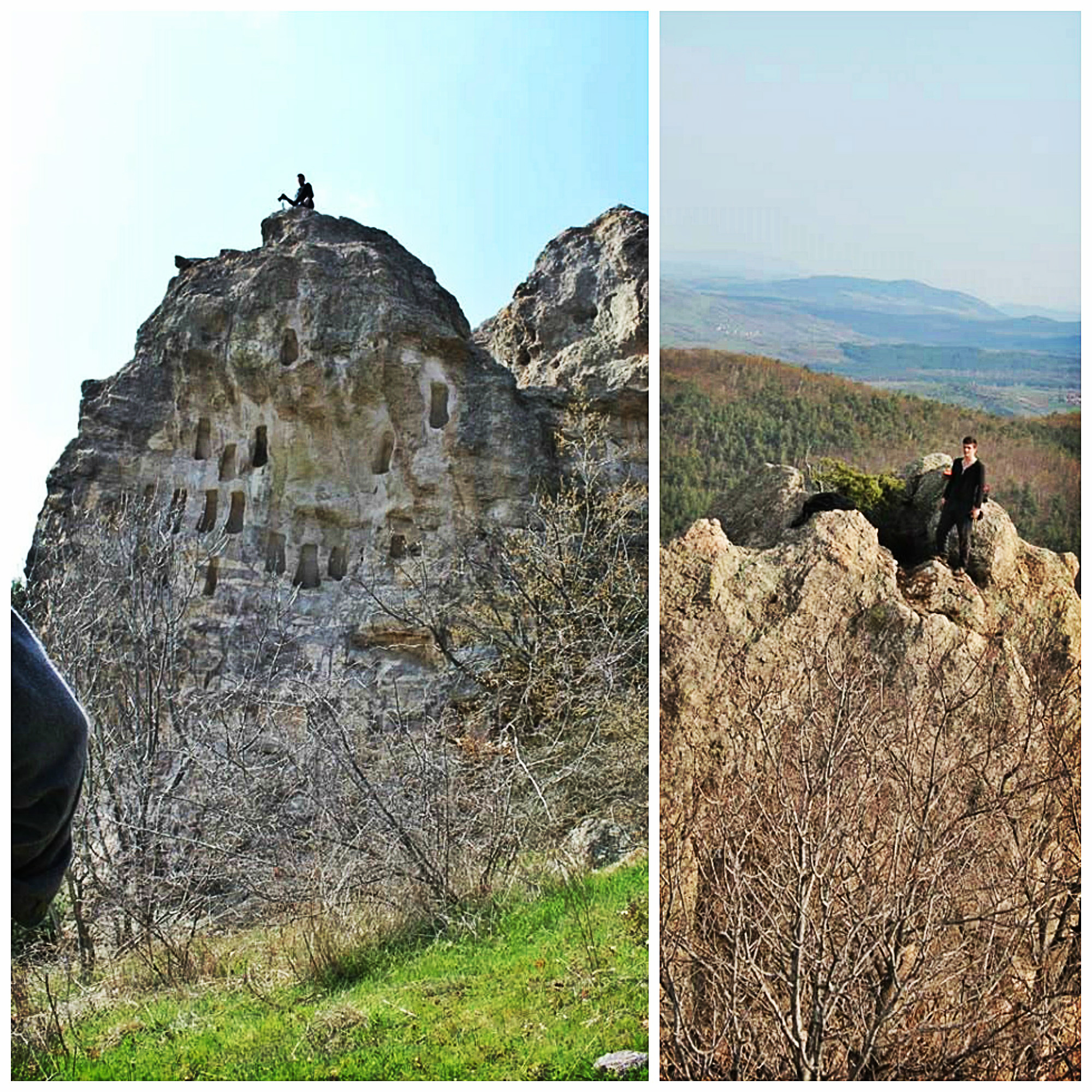 Dogan kaya Sarnitsa Chobanov BG